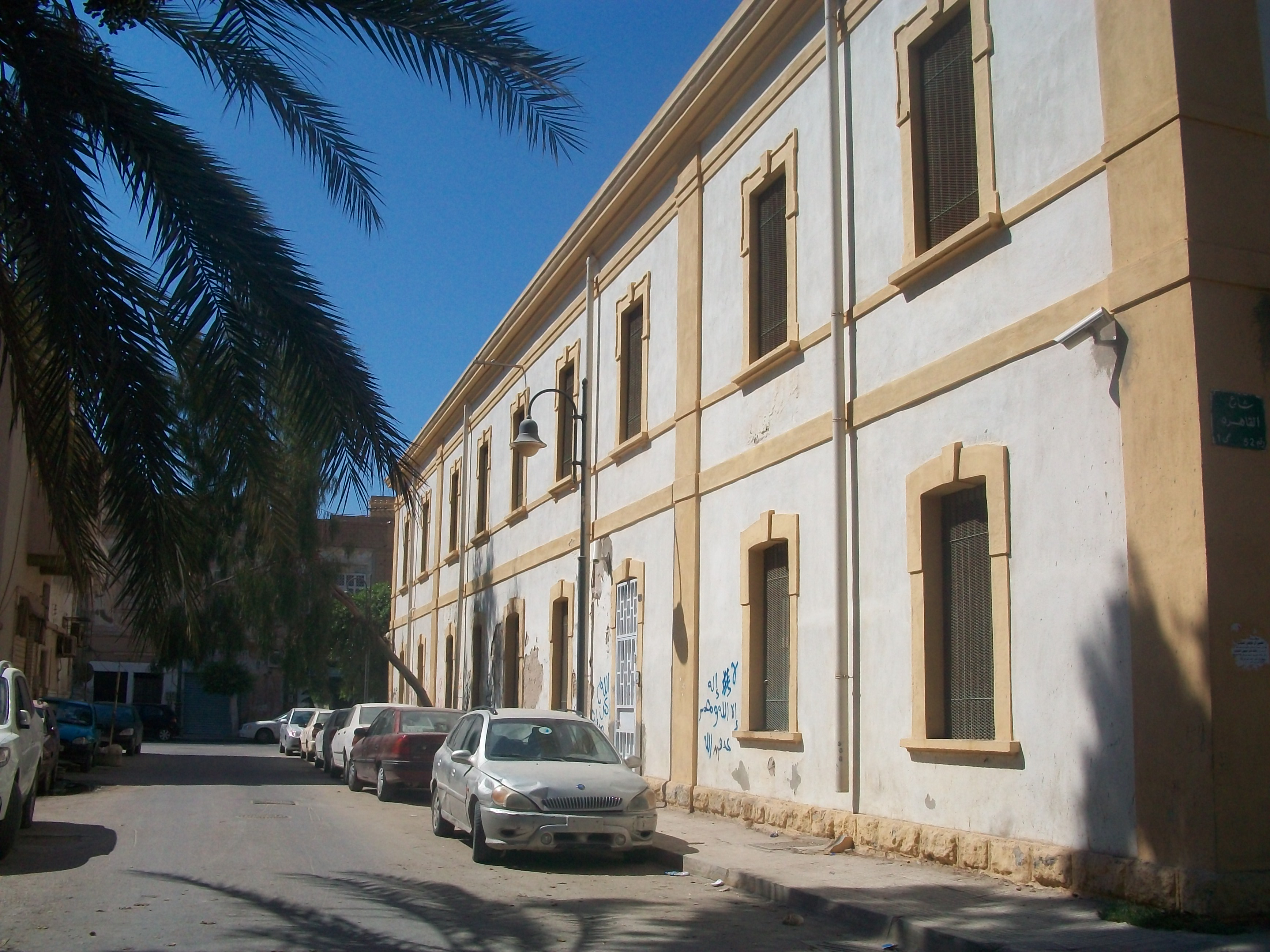 Italian Consulate off Amr Ibn al-'As in central Benghazi.